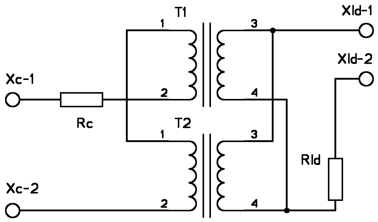 Parallel connected transductor, i.e. pair of identical transductor cores with identical, parallel connected load windings. This is one of the basic magnetic amplifier circuits. This circuit schematic drawing was created with gEDA Schematic Editor.